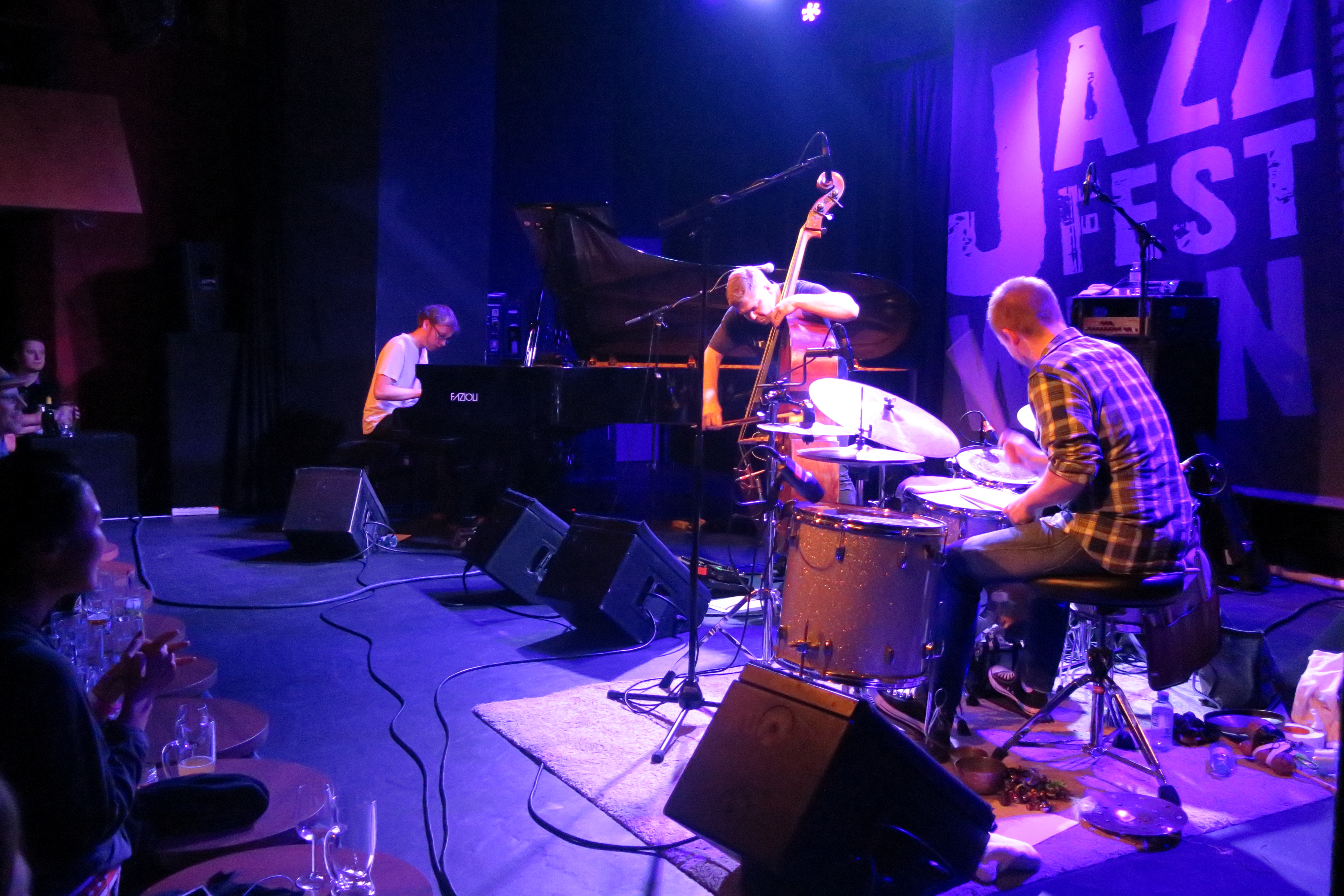 A concert photograph showing the band "GoGo Penguin" during their concert in the "Porgy & Bess" venue in Vienna (Austria) on 2016-07-06.